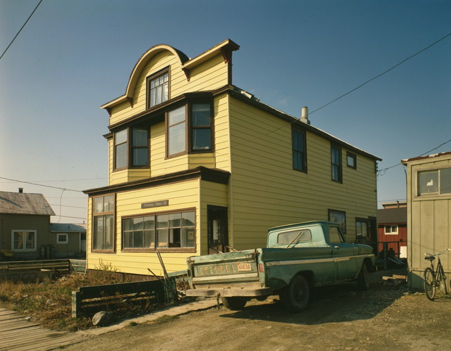 Discovery Saloon, Nome (Nome Census Area, Alaska) cropped